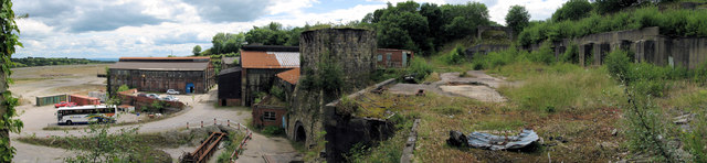 Brymbo Heritage Site, near to Moss, Wrexham/Wrecsam, Great Britain. A general view of the remains of the Brymbo Steelworks from the furnace charging bank. To the left is the machine shop built in 1920. In the centre is 'Old No.1' Blast furnace which was built by John Wilkinson in the 1790s which continued to make iron until 1894. Behind the furnace is the foundry which operated in the furnace old casting house.